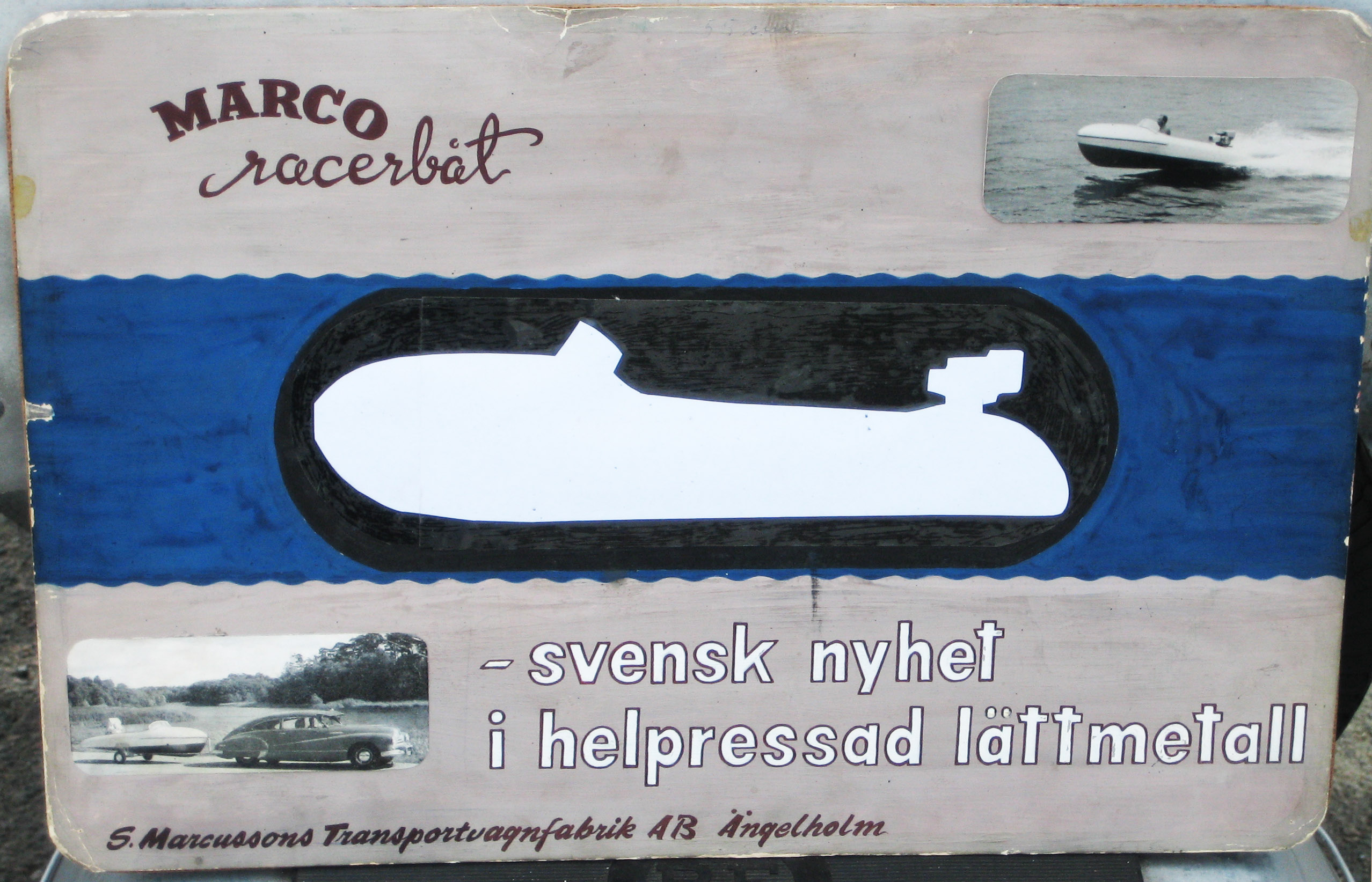 Commercial for "Marco racerbåt", a swedish motorboat from the late 1940:ies. Photo taken in Magnarpsstrand, Sweden by the uploader.